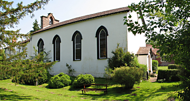 Moravian church at Brockweir, Gloucestershire